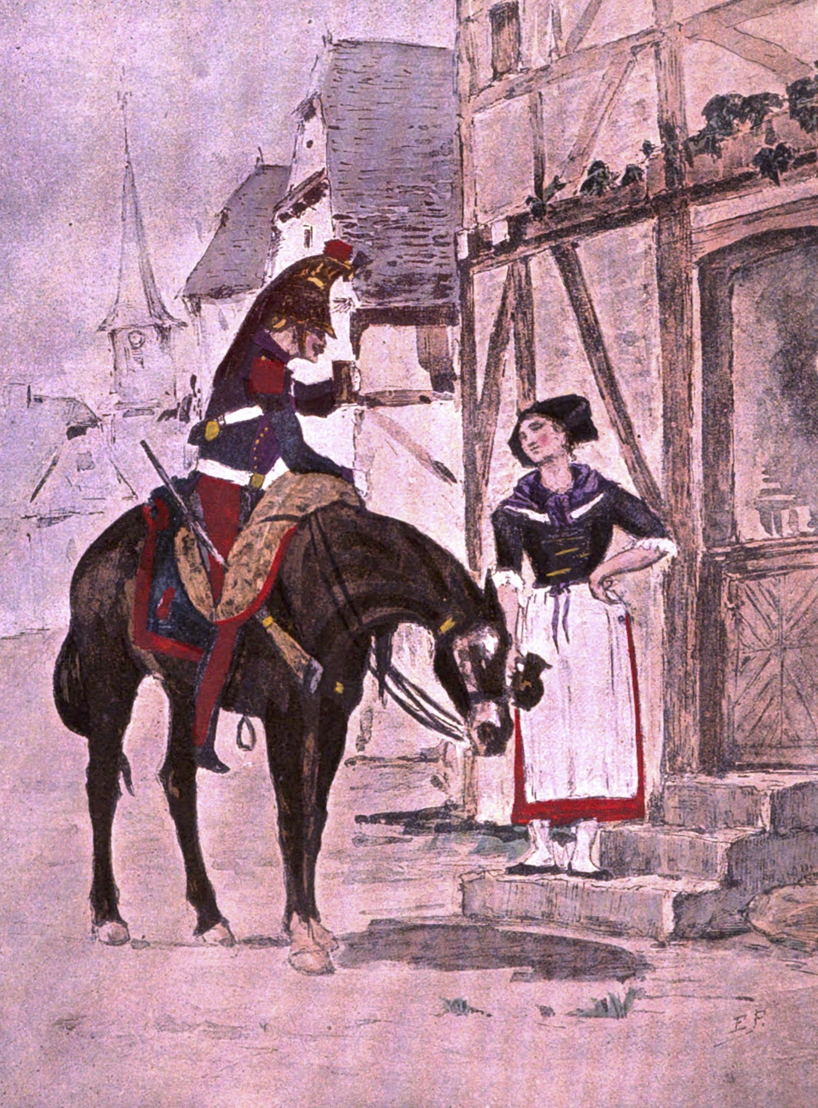 A dragoon of the 2e Régiment de Dragons in 1838